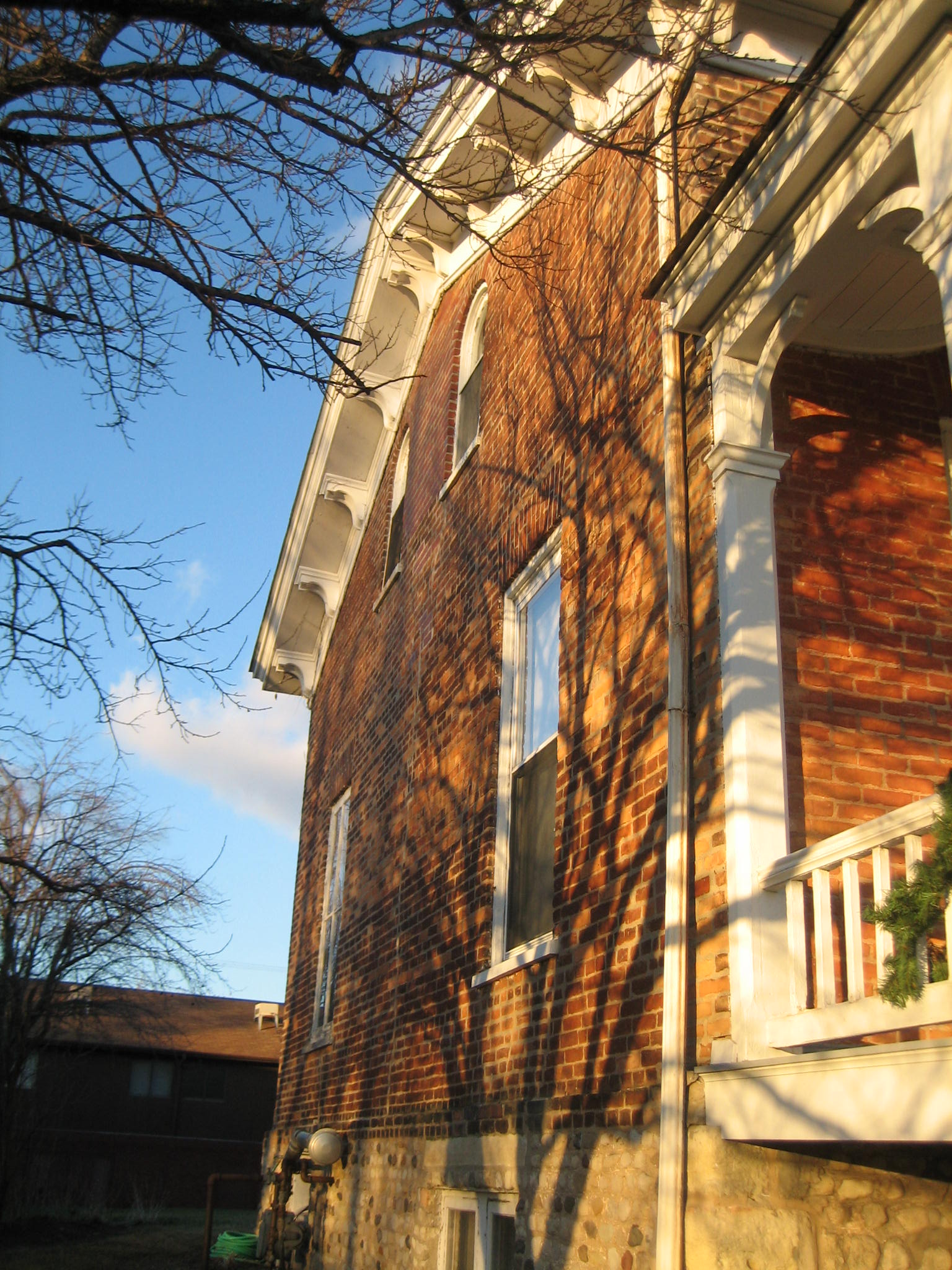 Joseph F. Glidden House, DeKalb, Illinois, National Register of Historic Places.